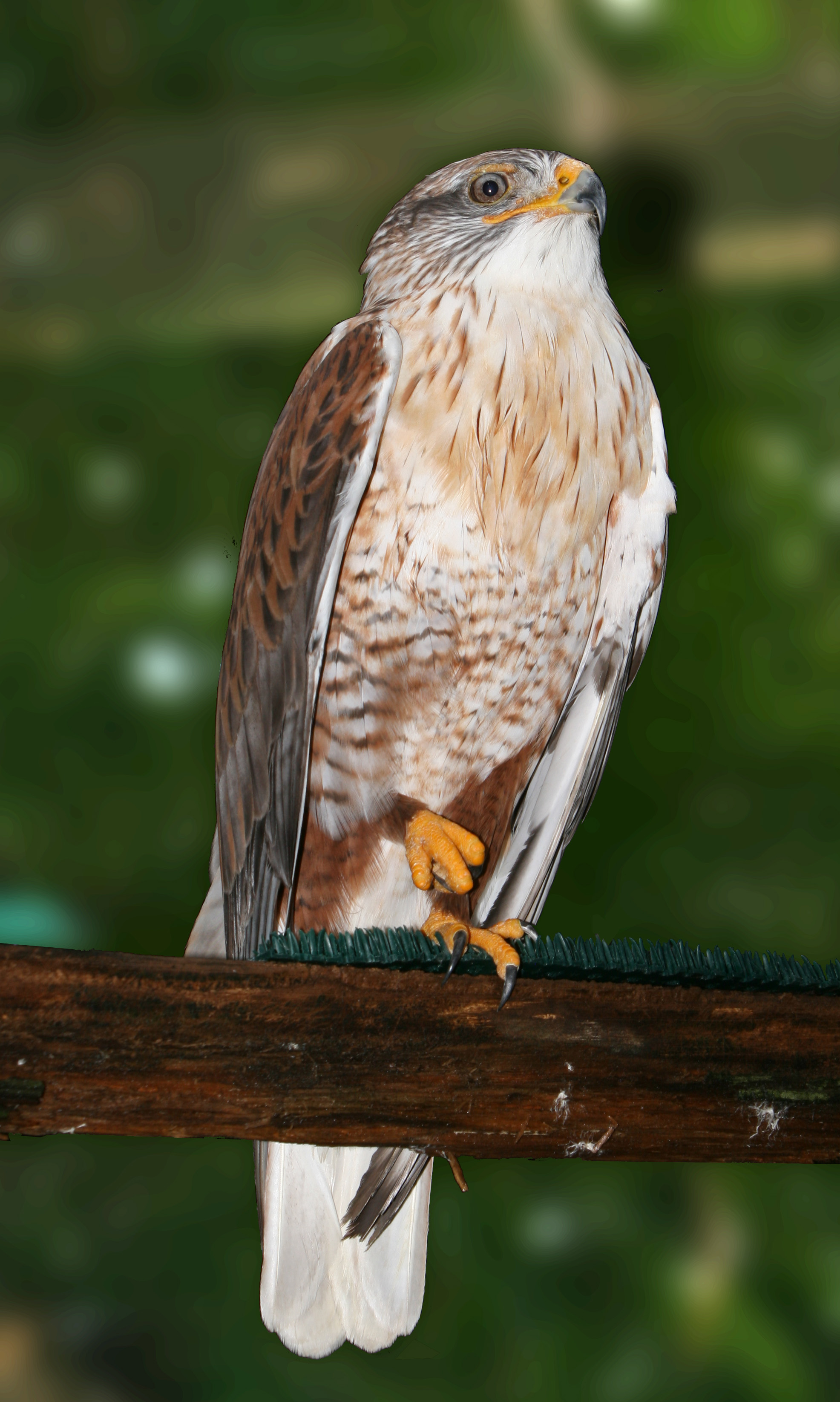 Light-morph Ferruginous Hawk in captivity. Uploaded for encyclopedia value; background blurred in editor. This hawk is close to twenty years old.